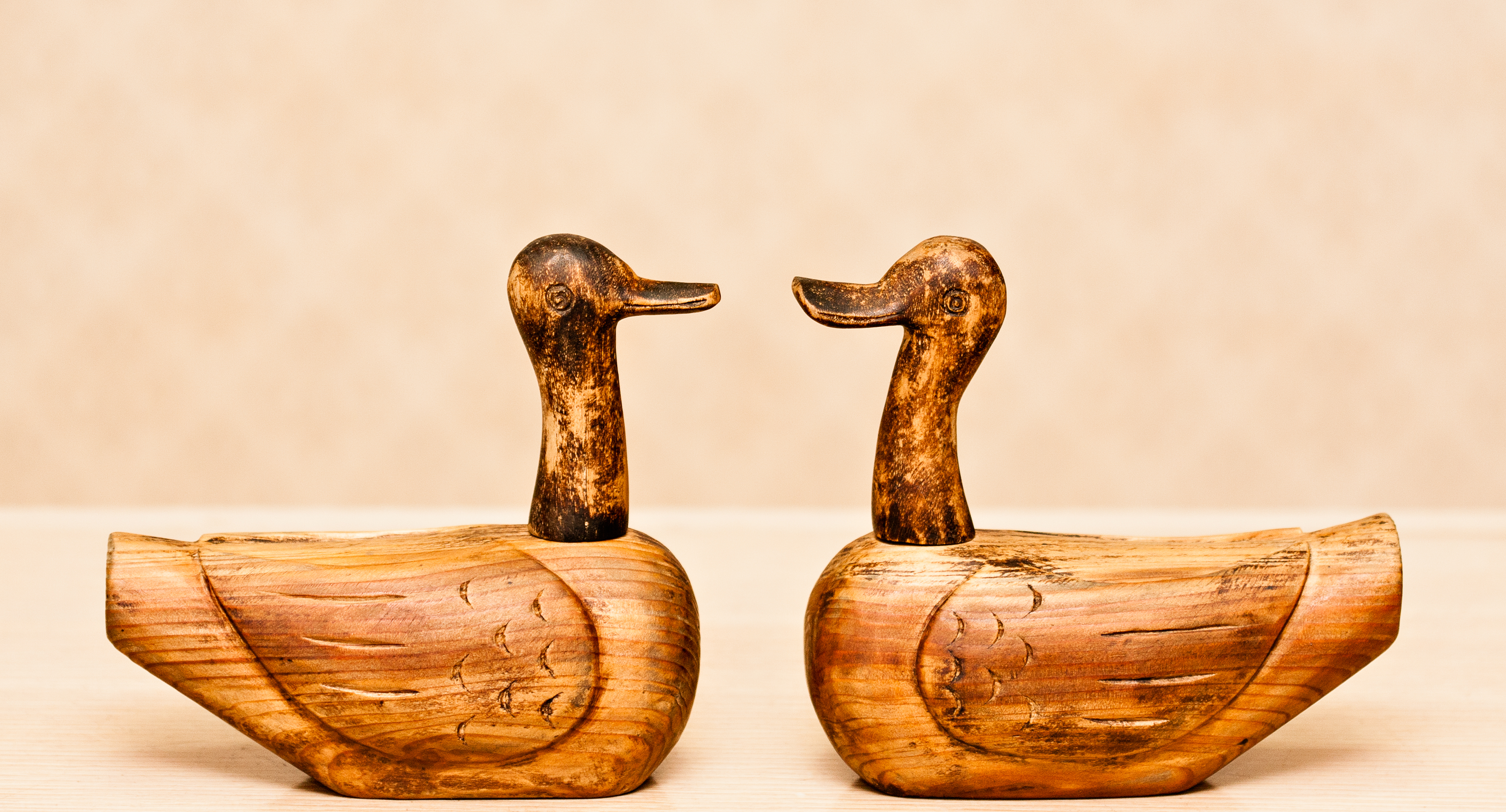 A pair of antique wooden ducks that are used in traditional Korean wedding ceremonies.